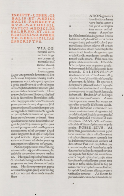 Matthaeus Silvaticus, Liber pandectarum medicinae (Naples, 1474) title page